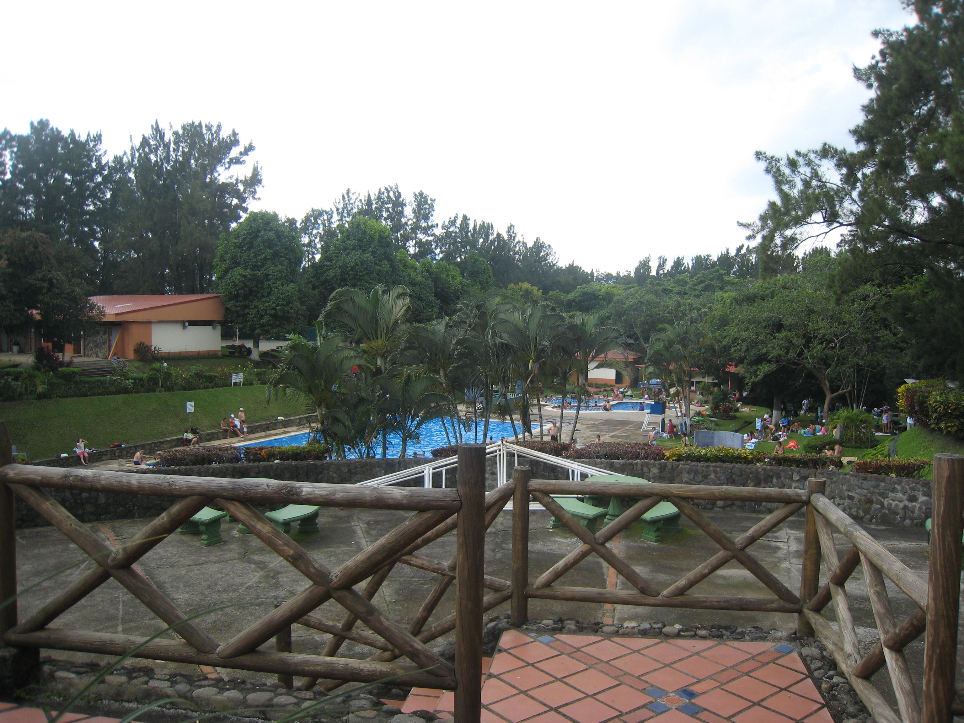 Campus of Colegio de Licenciados y Profesores (COLYPRO) (College of Licentiates and Teachers), Alajuela, Costa Rica